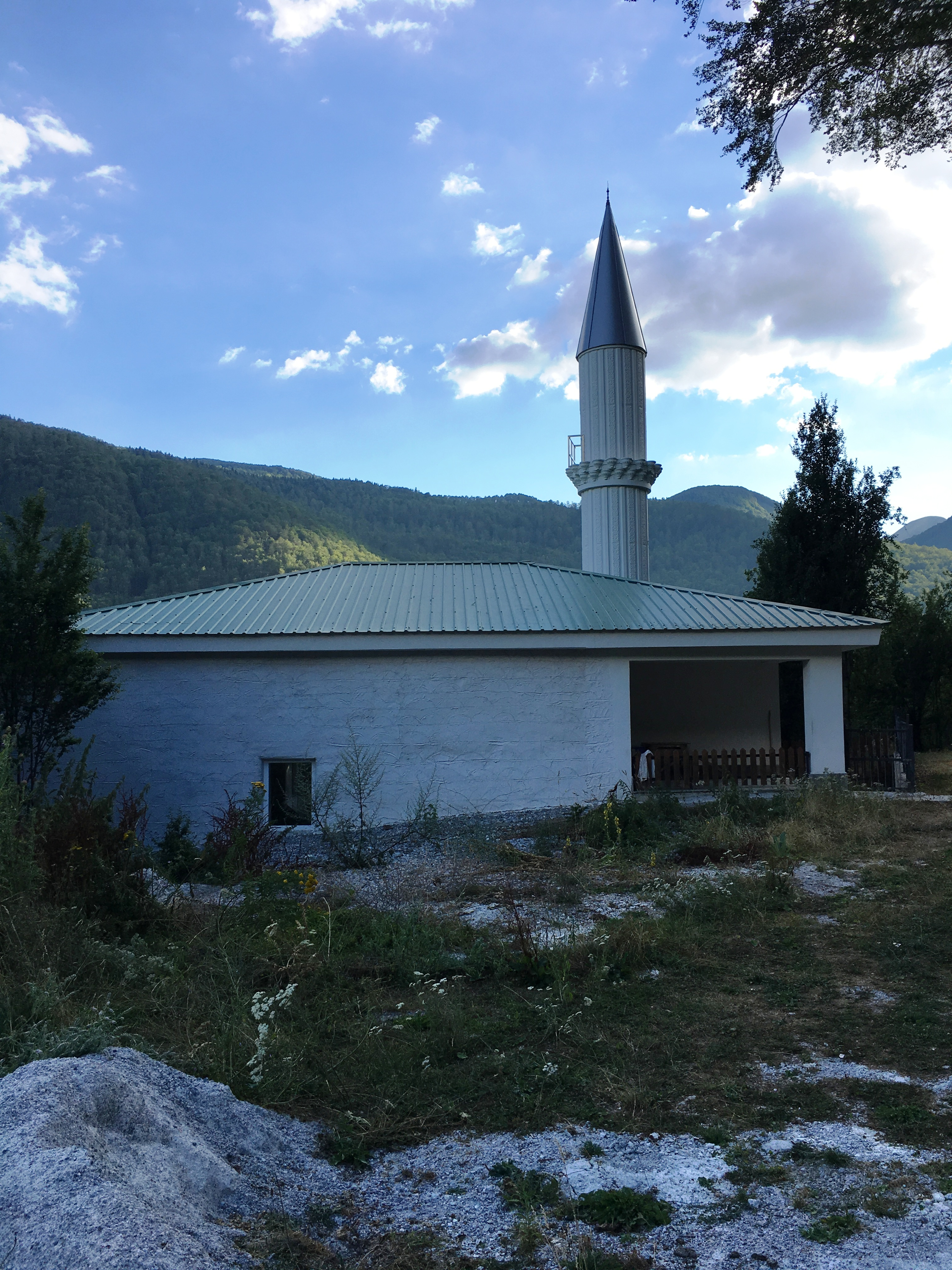 Mosque in the village of Ribnica